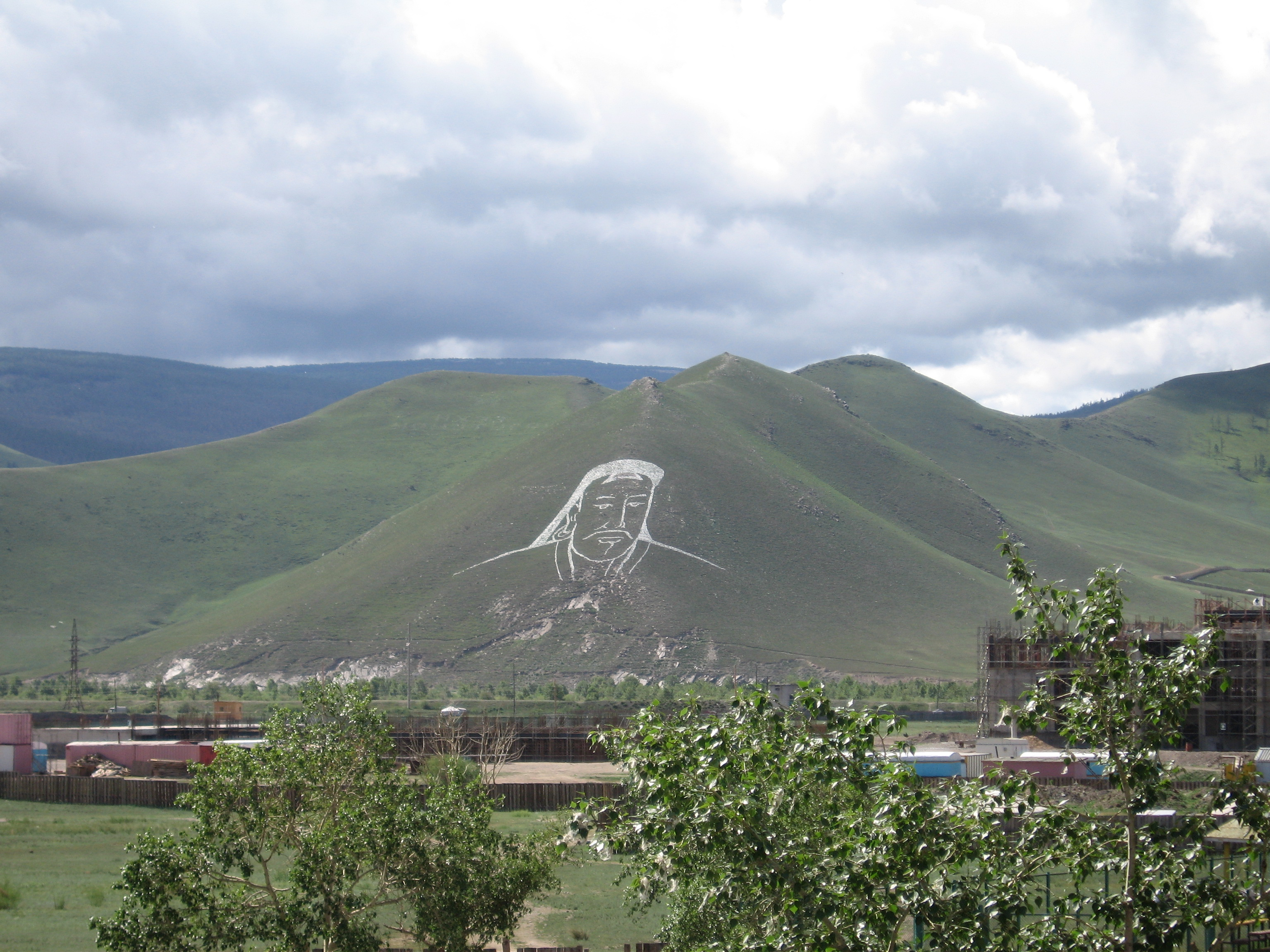 Chinggis Khan ("Genghis Khan") portrait painted on a Mongolian hillside for the 2006 Naadam celebration.